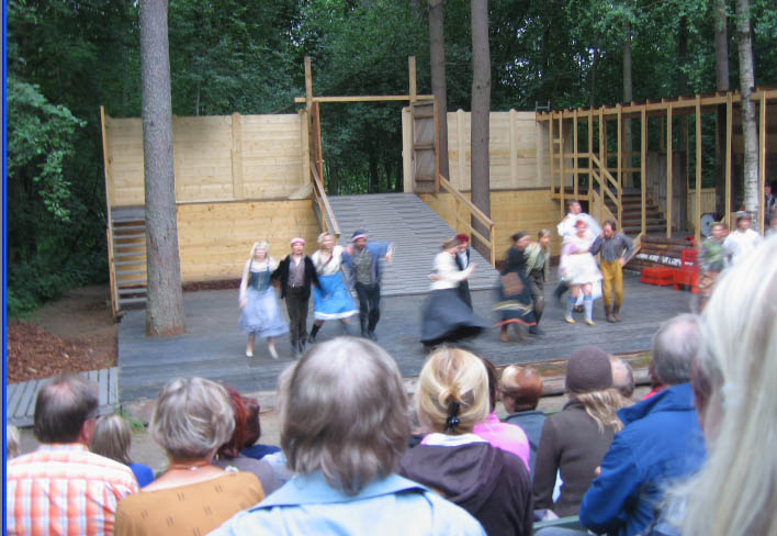 A theater adaptation of the novel trilogy Under the North Star (Finnish: Täällä Pohjantähden alla) by Väinö Linna at Hasanniemi open air theater in Joensuu, Finland.